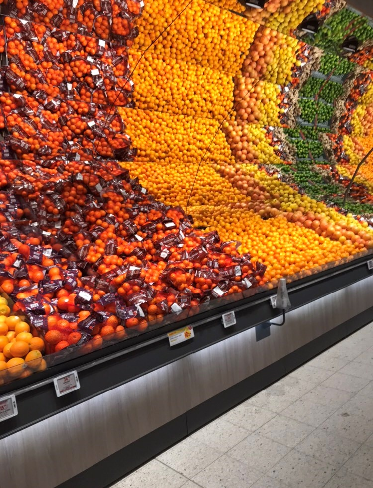 A display of fruit at ICA Maxi Lindhagen